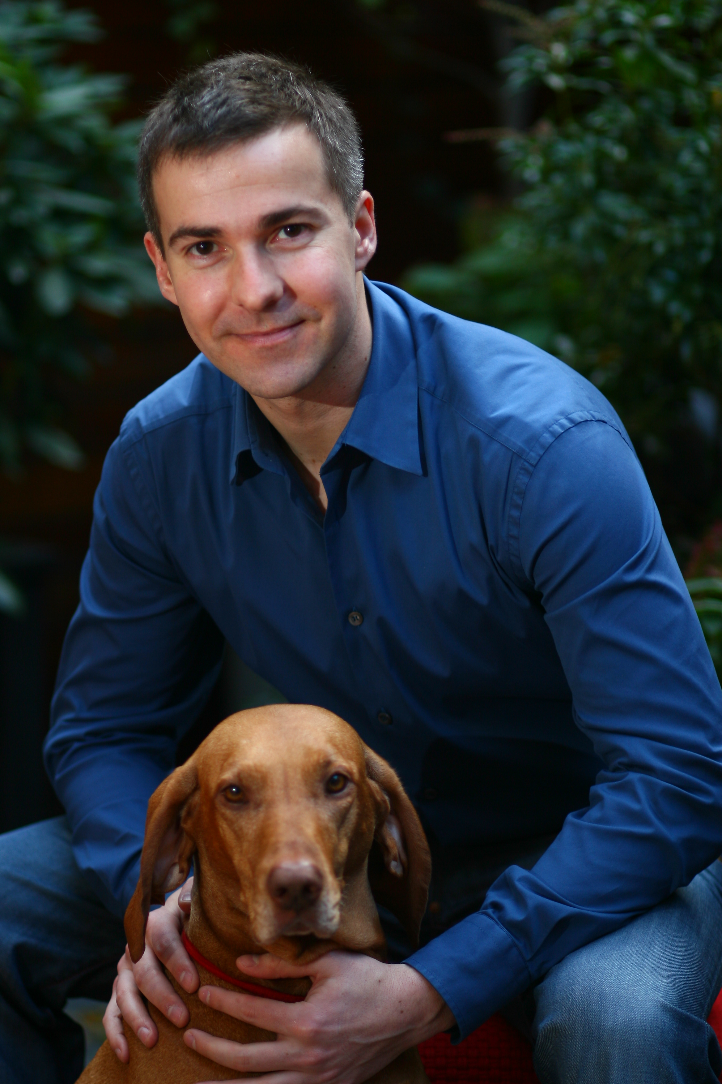 David Ebershoff with his vizsla, Elektra